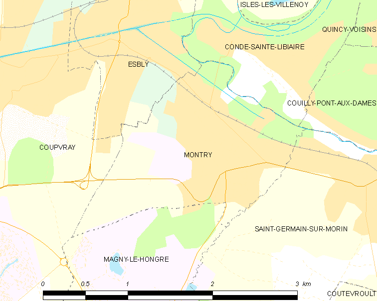 Map of French municipality Montry